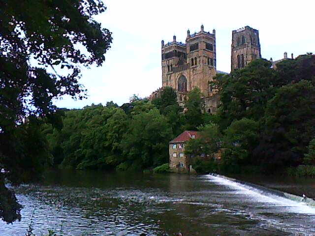 View of Durham Cathedral, England, from a path alongside the River Wear, circa October 2009.